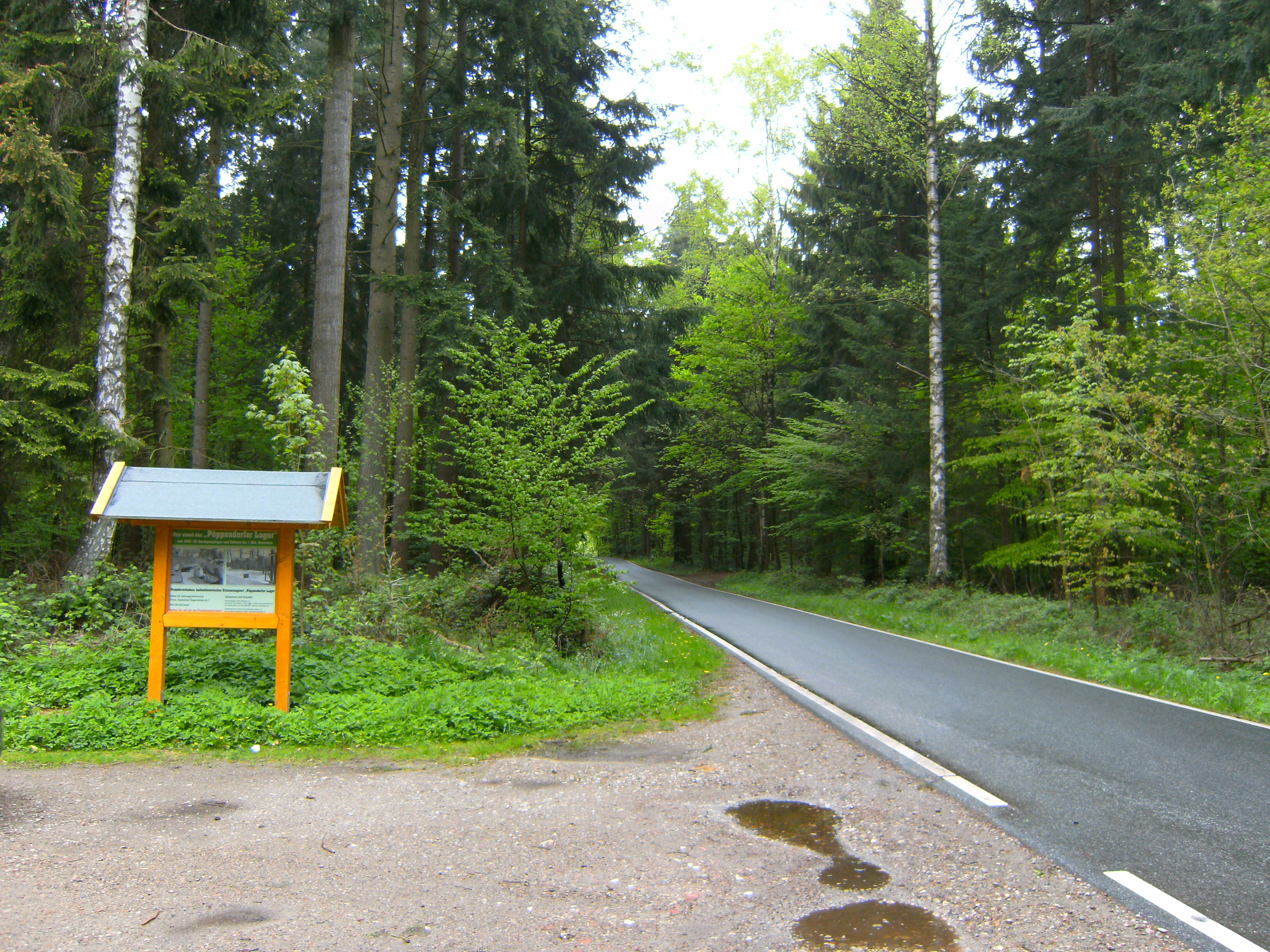 Lager Pöppendorf on the parking area in Waldhusener Forst. Board of remembrance and road.